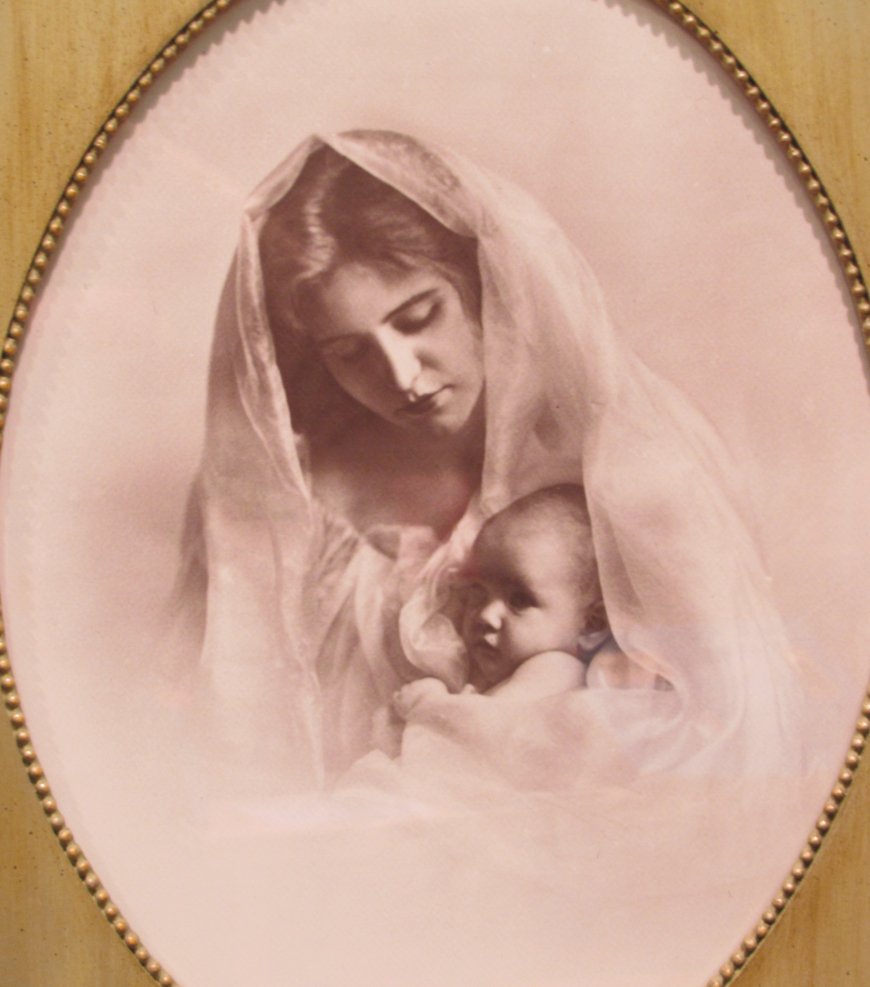 "Madonna and Child," also called Knaffl's Madonna, taken by the Knoxville, Tennessee-based photography studio, Knaffl Brothers, in 1899. The photograph, a representation of Mary holding Jesus, is actually Emma Fanz holding Knaffl's daughter, Josephine.